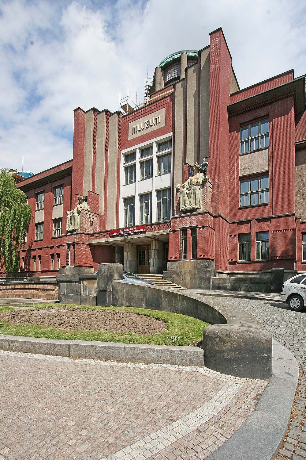 Brno